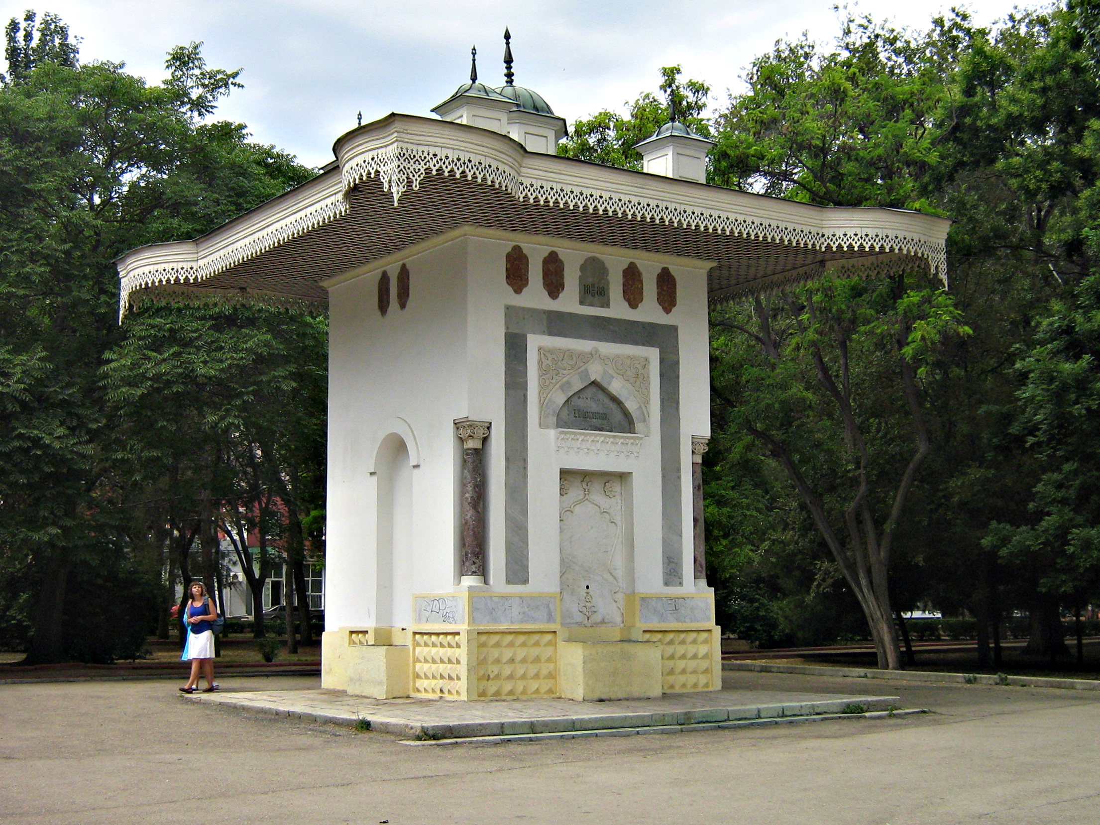 Ivan Aivazovsky fountain in Theodosia